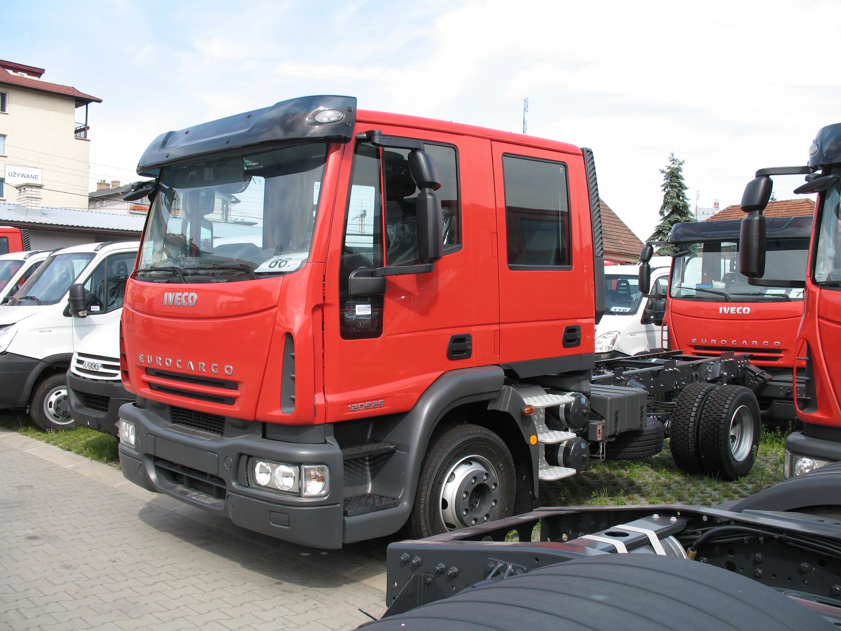 Iveco Eurocargo 120E25 Double Cab truck in Kraków, Poland.